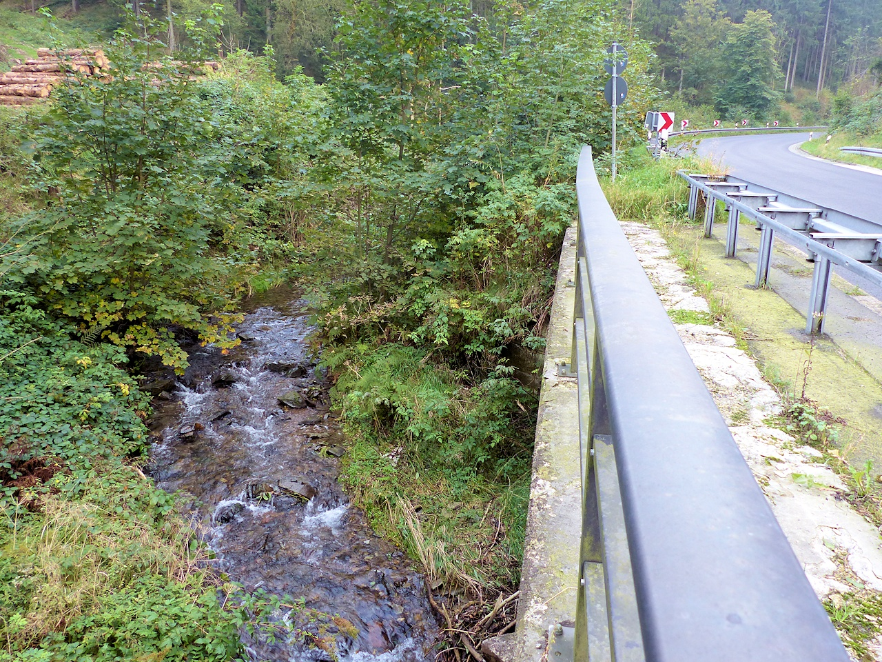 The Gose along the B 241 (federal road) south-west of Goslar centre; Lower Saxony, Germany